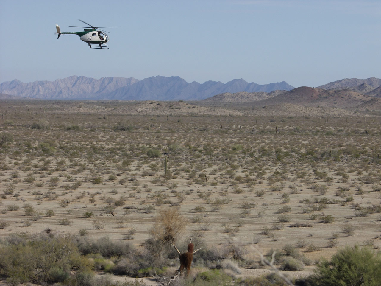 El Camino del Diablo, border patrol. Good morning! A Border Patrol helicopter circles around our camp in the morning while Eric was still sleeping